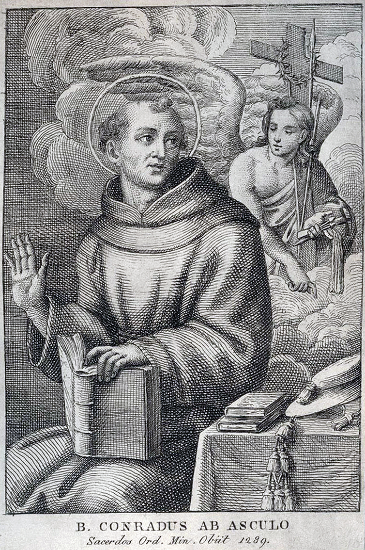 Printing from 1800 depicting the Blessed Conrad of Ascoli OFM